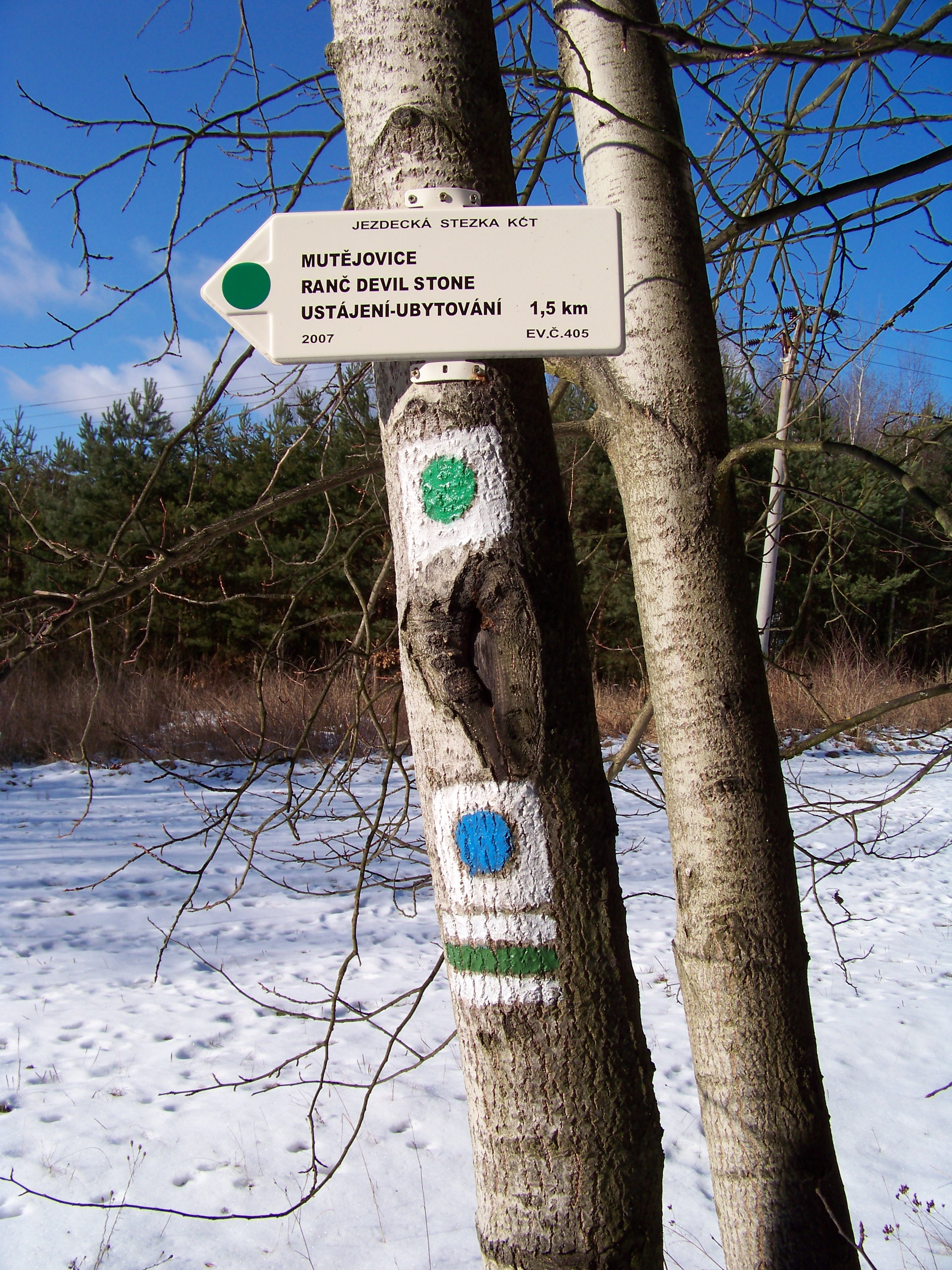 Mutějovice, Rakovník District, the Czech Republic. Riding and hiking signs.